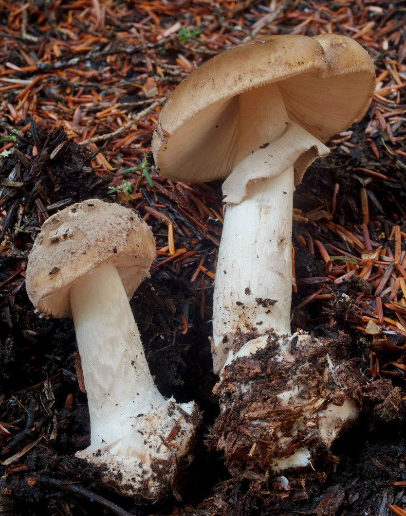 Amanita porphyria Alb. & Schwein. Image location: Tillicum Creek Trail, Kaniksu National Forest, Washington, USA Recognized by sight For more information about this, see the observation page at Mushroom Observer.